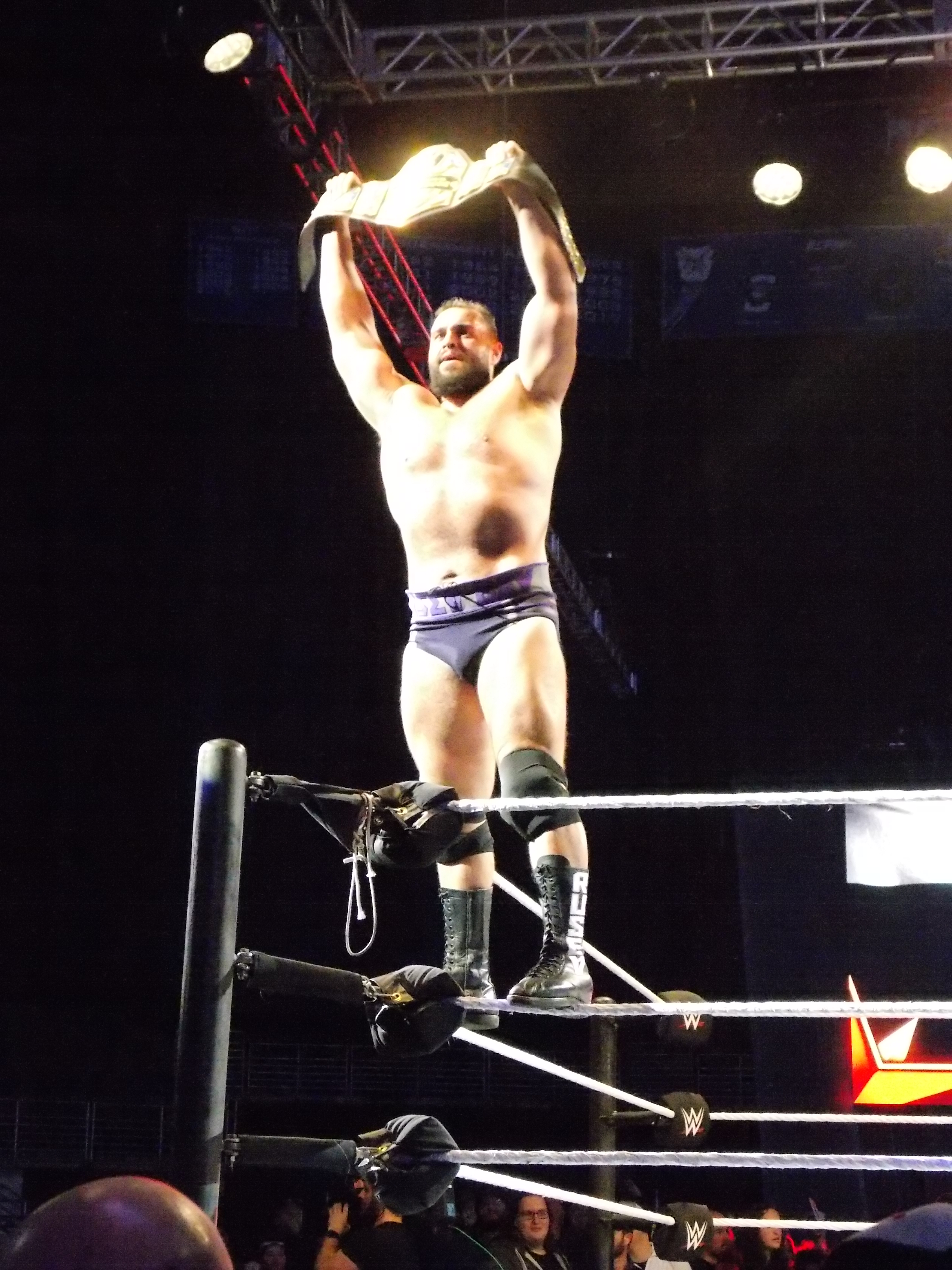 WWE United States Champion Rusev at a WWE Live Event House Show in Omaha, Nebraska, USA on Sunday, January 20, 2019